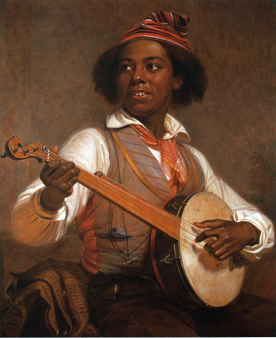 The Banjo Player - reverse image.